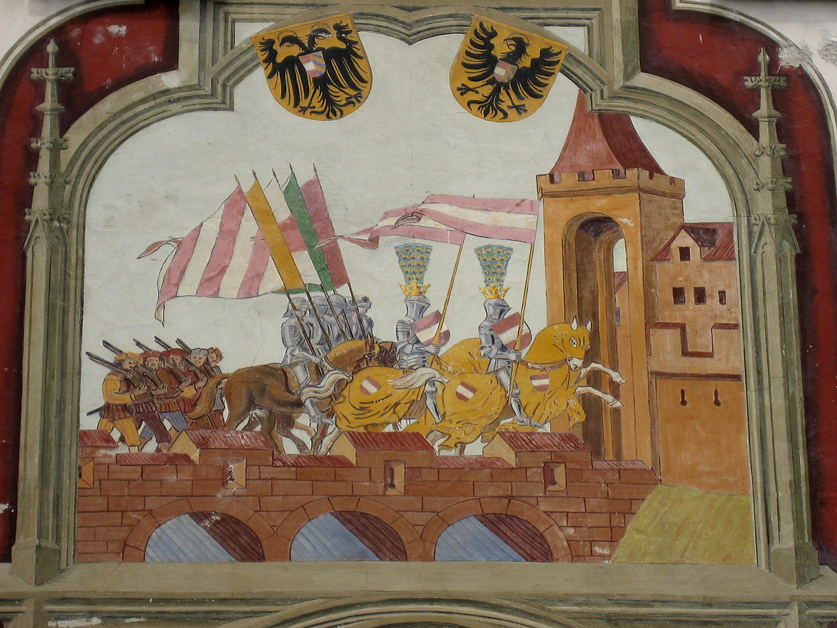 Sights of Vöcklabruck in Upper Austria, here the coat of arms of the city of Vöcklabruck as shown on the Upper City Tower (Oberer Stadtturm)